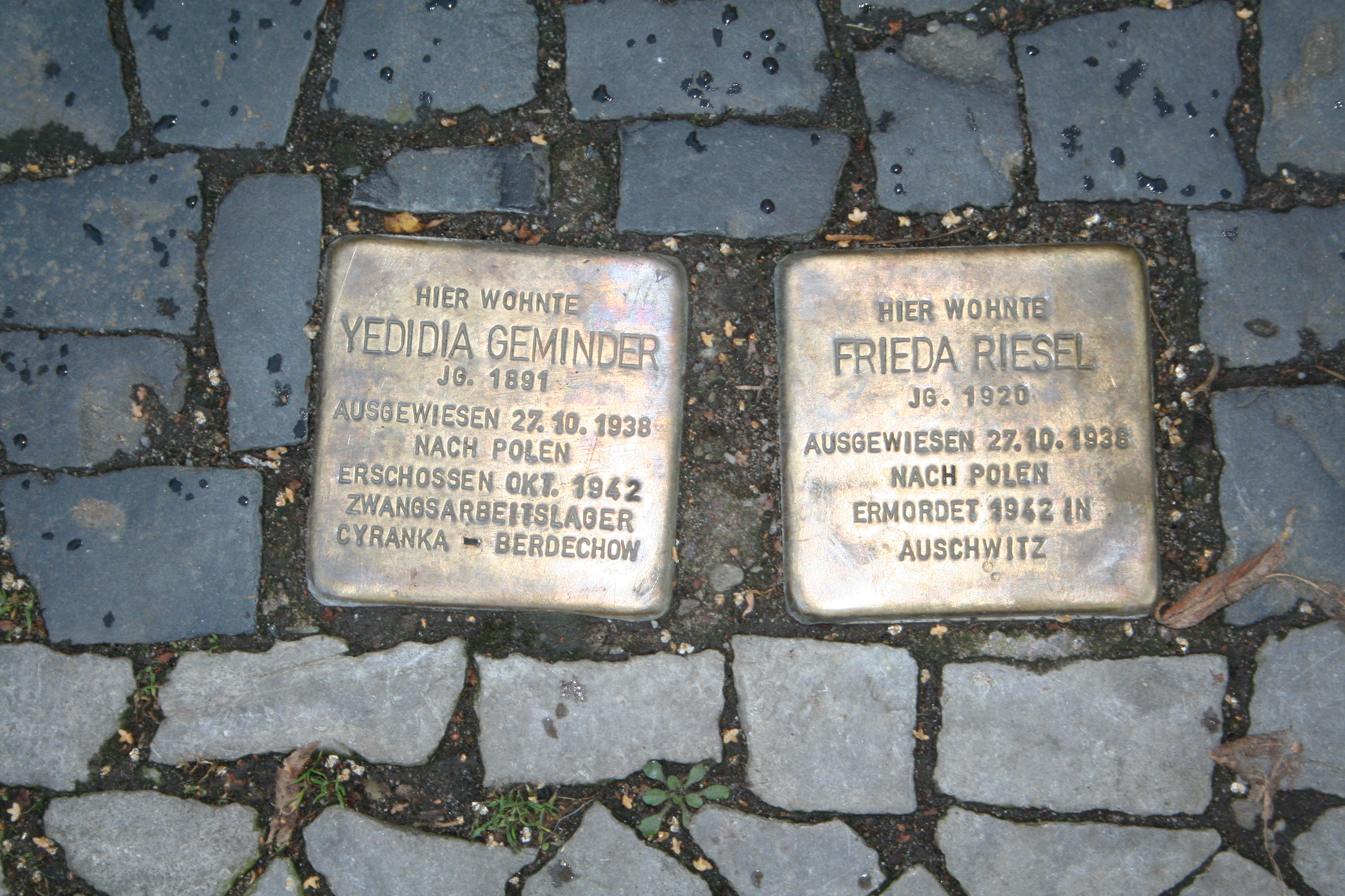 Stolperstein at Halle (Saale) for Yedidia Geminder and Frieda Riesel, Mühlweg 36